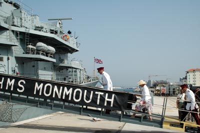 Sir Francis Richards leaves Gibraltar in July 2006 having handed over the keys to the Deputy Governor.